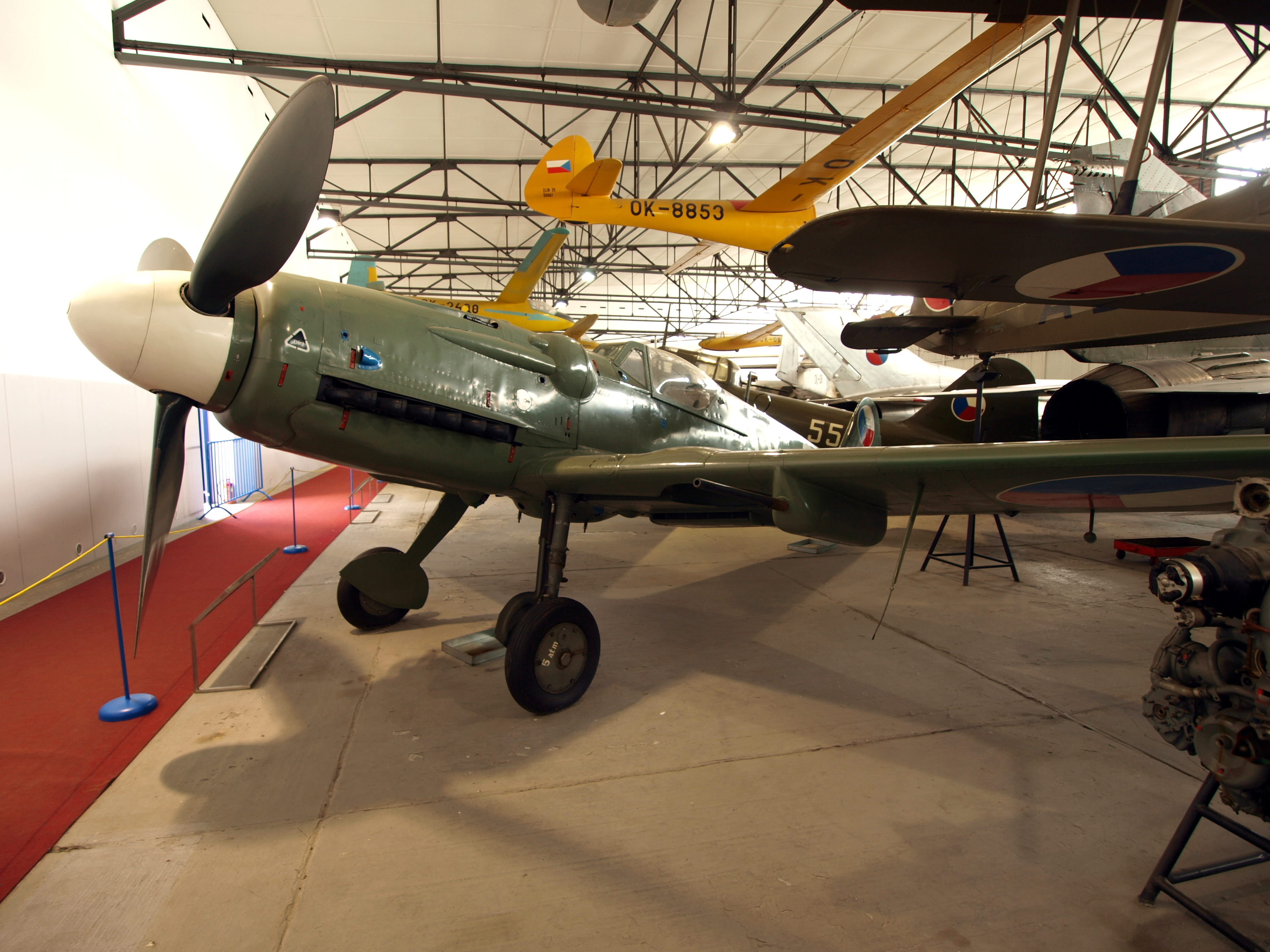 Avia S-199 (Czech version Messerschmitt Bf 109G/K) (UF 25). Photograph taken without a tripod (was not allowed!).